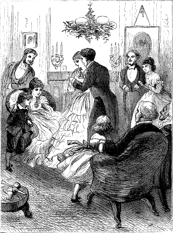 Christmas throughout Christendom, Viscum album Under the Mistletoe